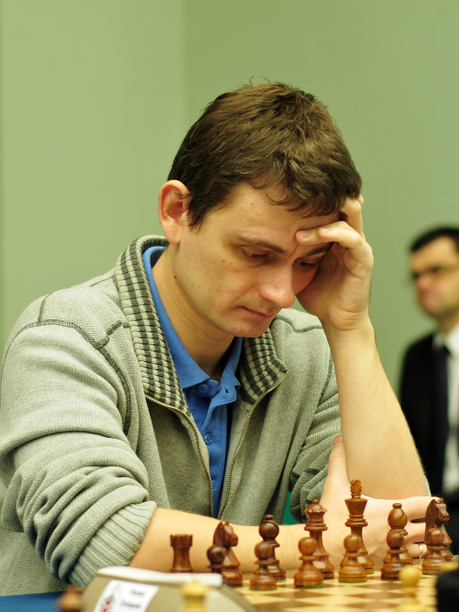 GM Sergei Azarov, European Rapid Chess Championship, Warsaw 2013.